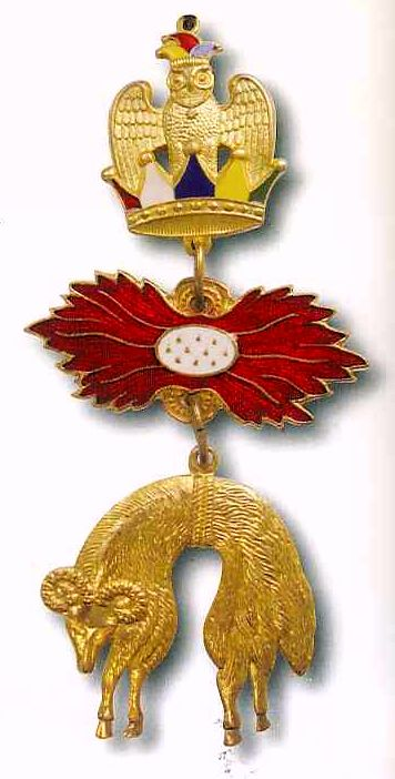 The Golden Fleece of the Carnival Order